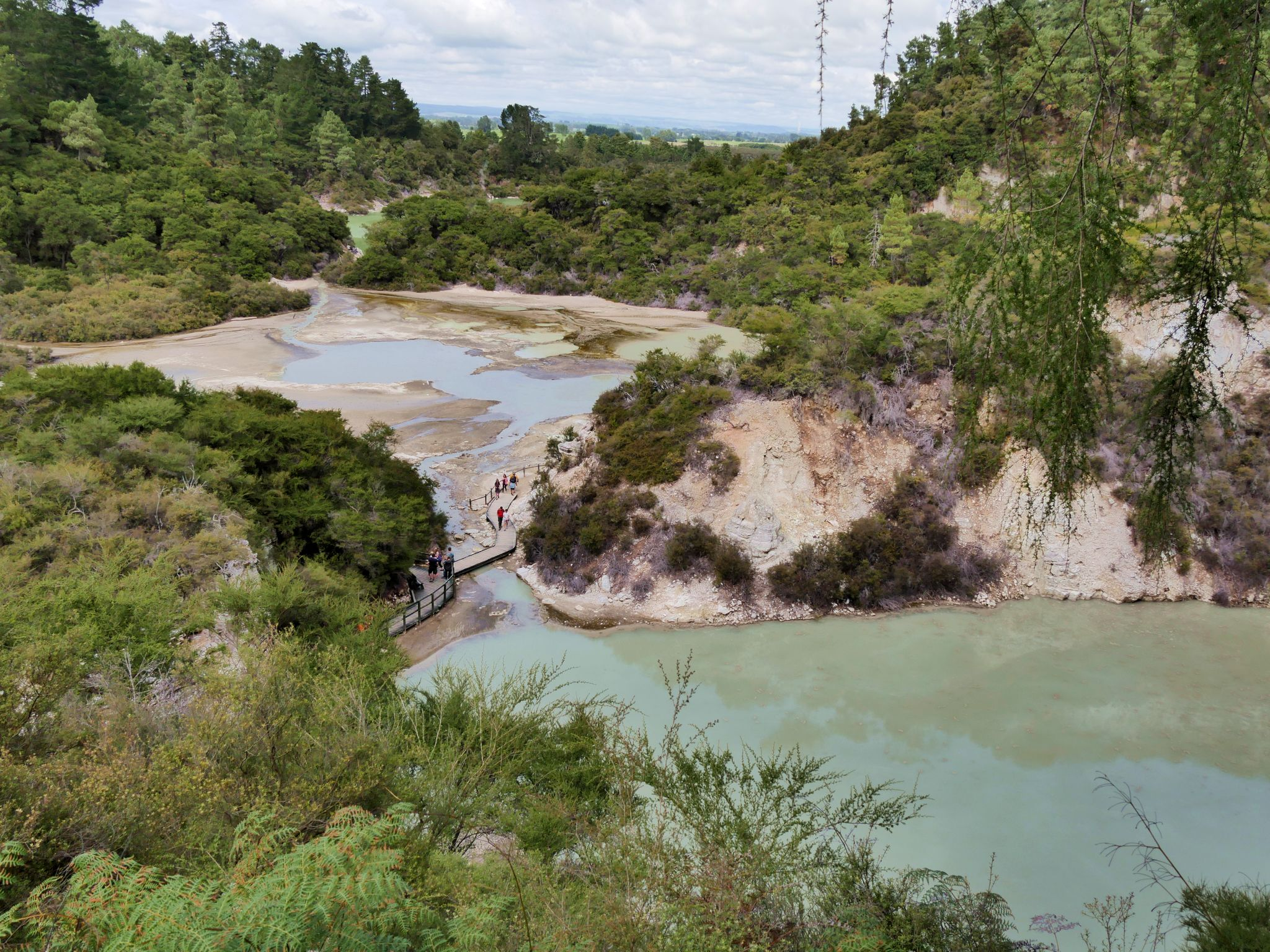 Three craters filled with coloured water in Wai-O-Tapu Thermal Wonderland, Wai-O-Tapu geothermal area, Waikato Region, North Island, New Zealand